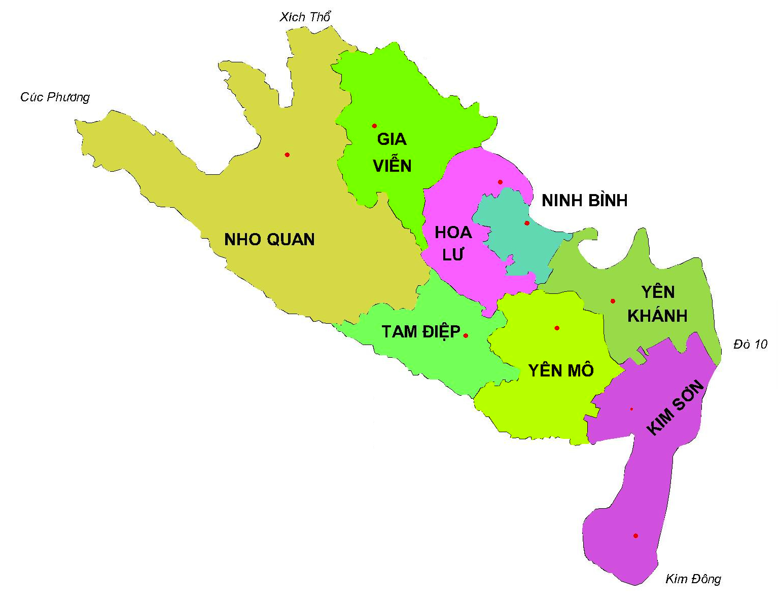 Map of Ninh Binh Province